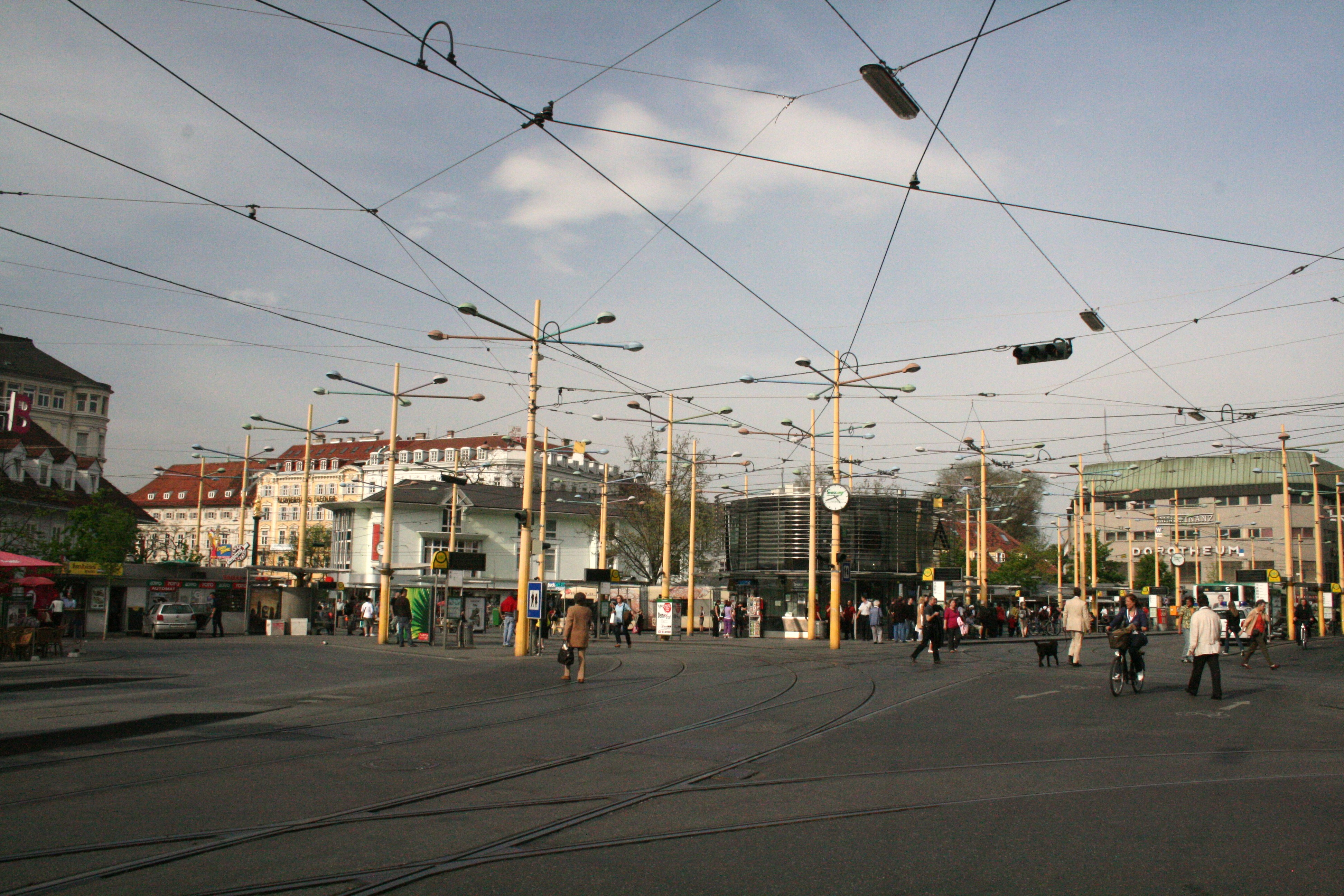 "Jakominiplatz" (Jakomini square) in Graz, Austria, Europe